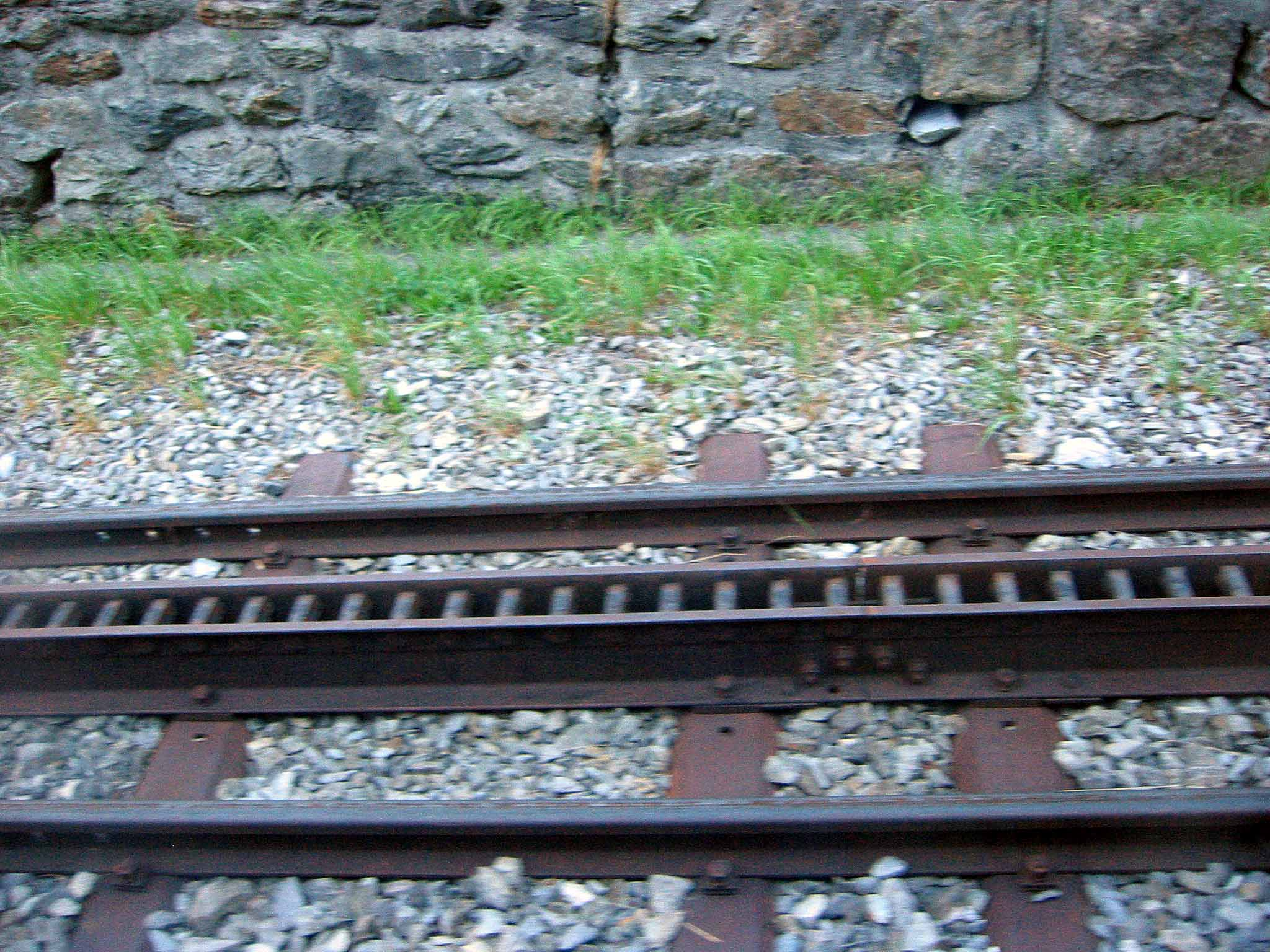 Ladder cograil of Riggenbach type. Original creation by me, shot August, 2003. Ths is the Riggenbach type used in the Wengernalp railway , part of the Jungfrau railway system in Bernese Oberland, Switzerland.